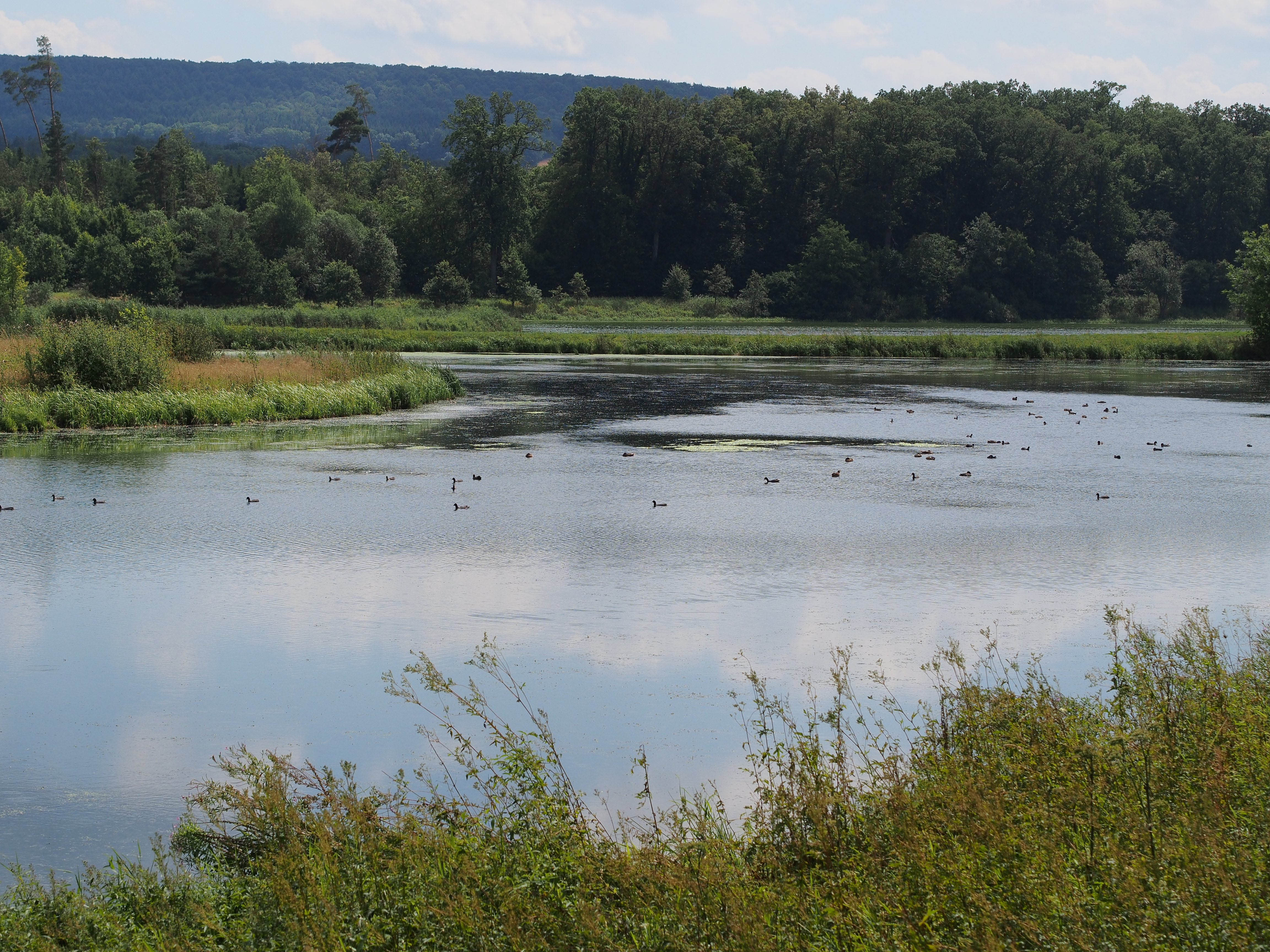 "Stockmühle" dam lake with near-natural islands and shores